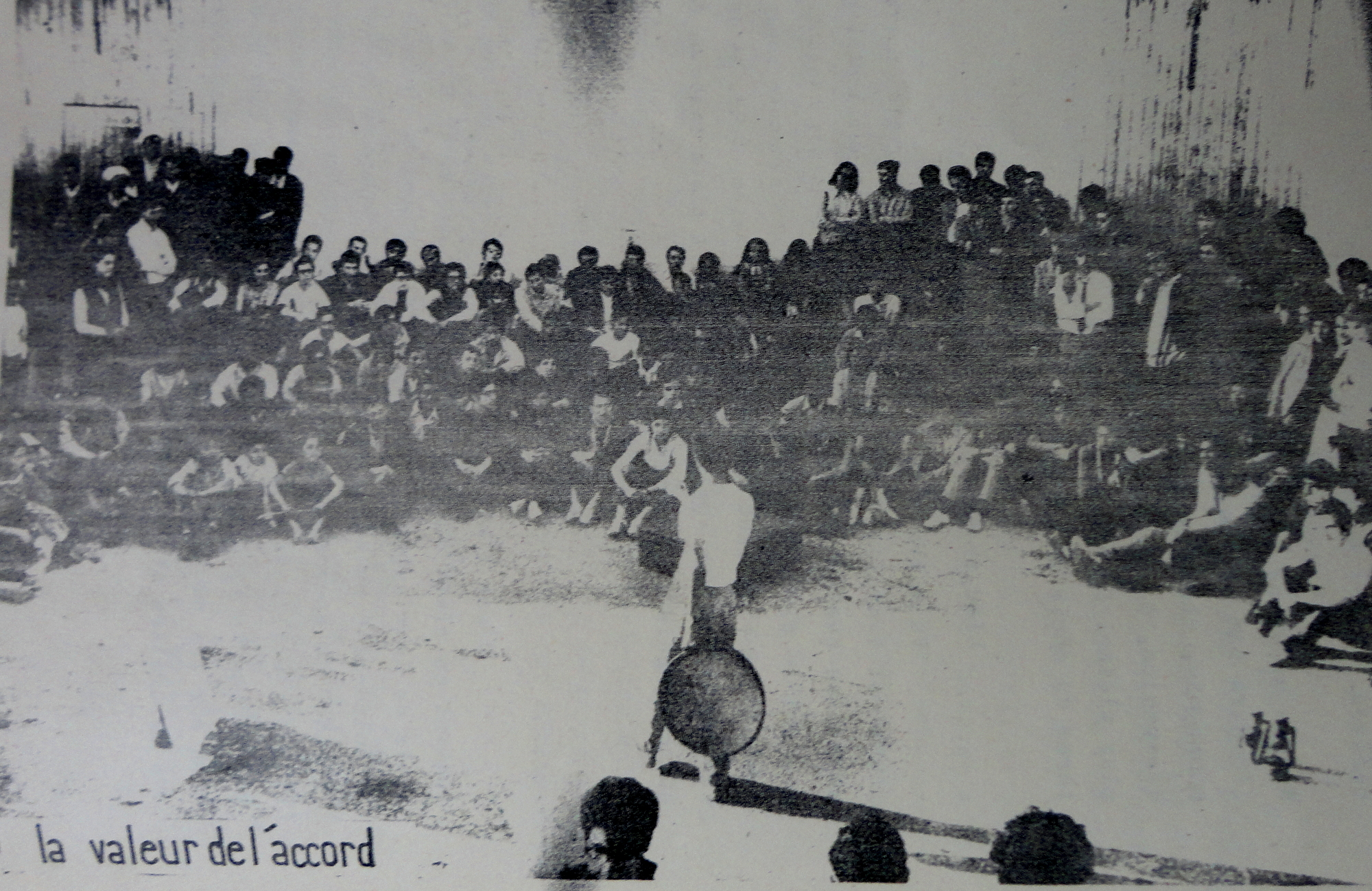 Presentation of La Valeur de l'Accord (The Agreement's Value) to an audience of peasants and students, in the Bouchaoui farm, near Algiers, 1969.